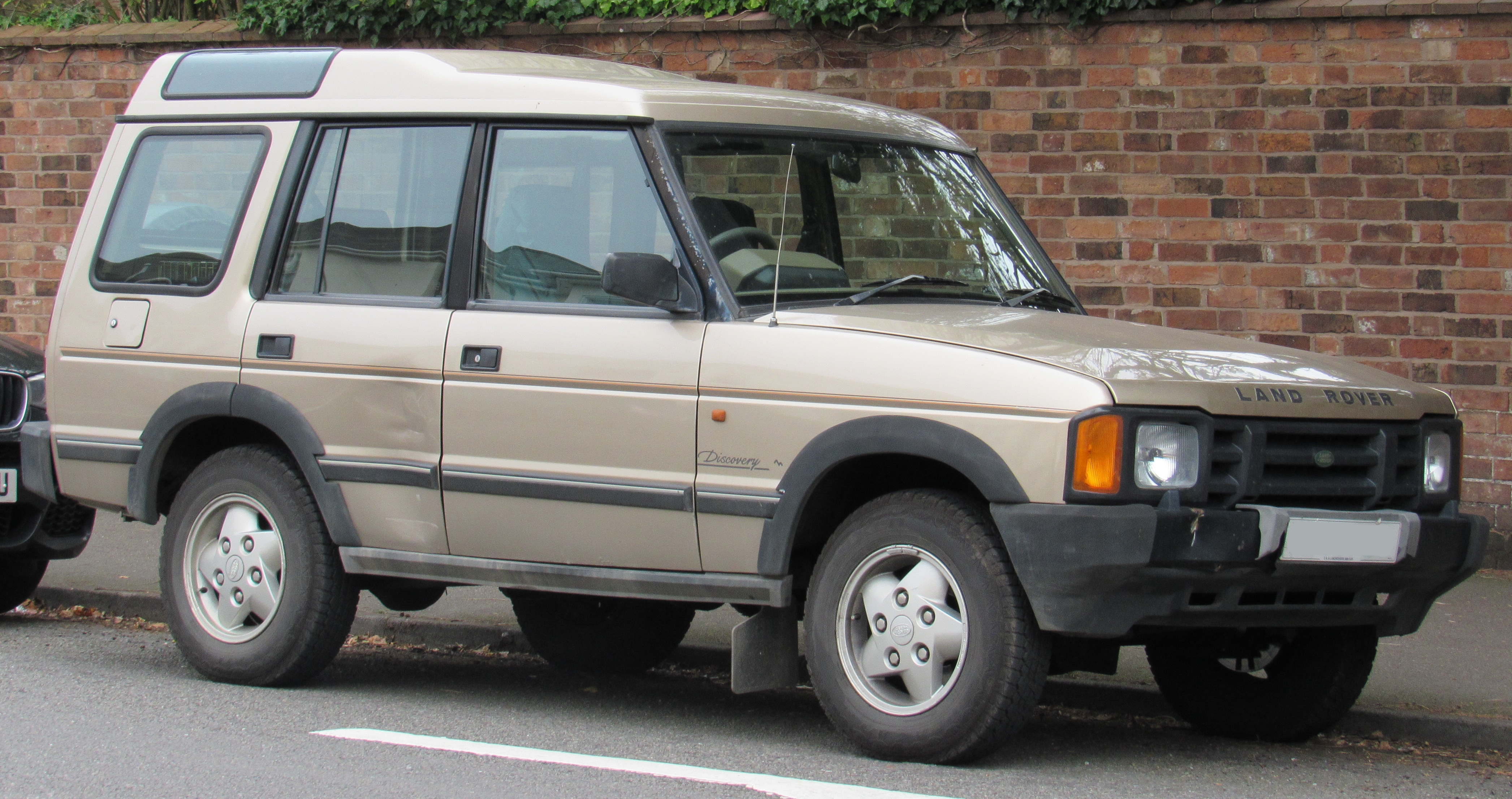 1993 Land Rover Discovery TDi 2.5 Front Taken in Leamington Spa